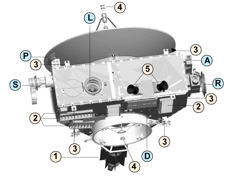 New-Horizons-drawing-2